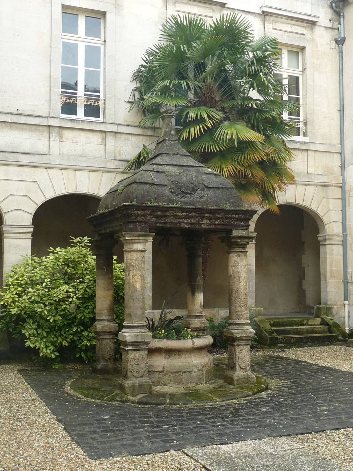 Cognac, Charente, France, old Couvent des Récollets. It was built in the 17th century around 1640.